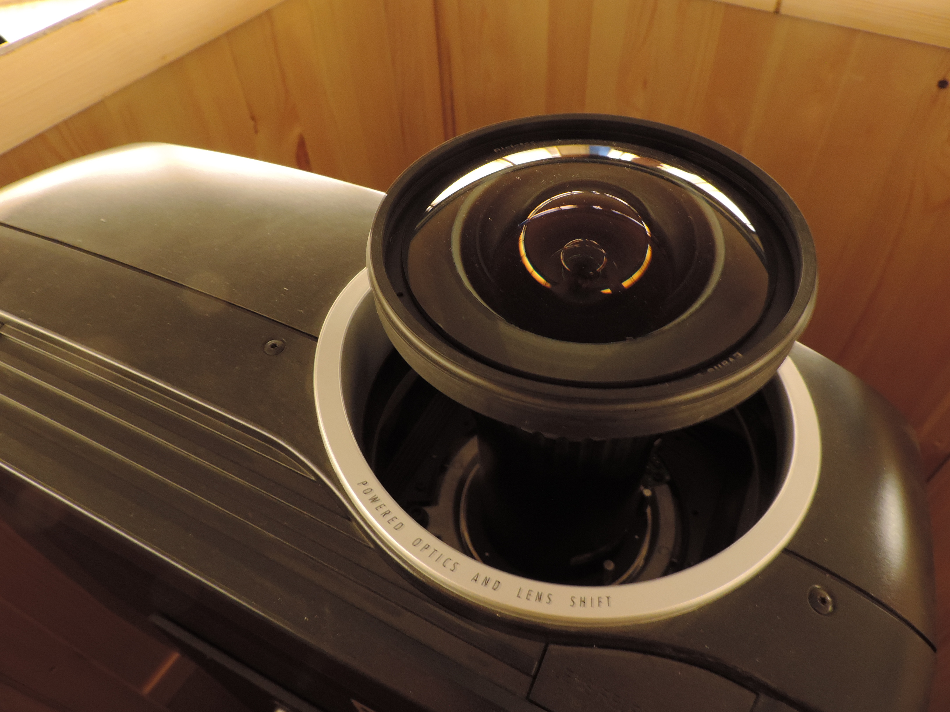 Evans & Sutherland planetarium projector in the Regional Natural History Museum of Plovdiv, Bulgaria